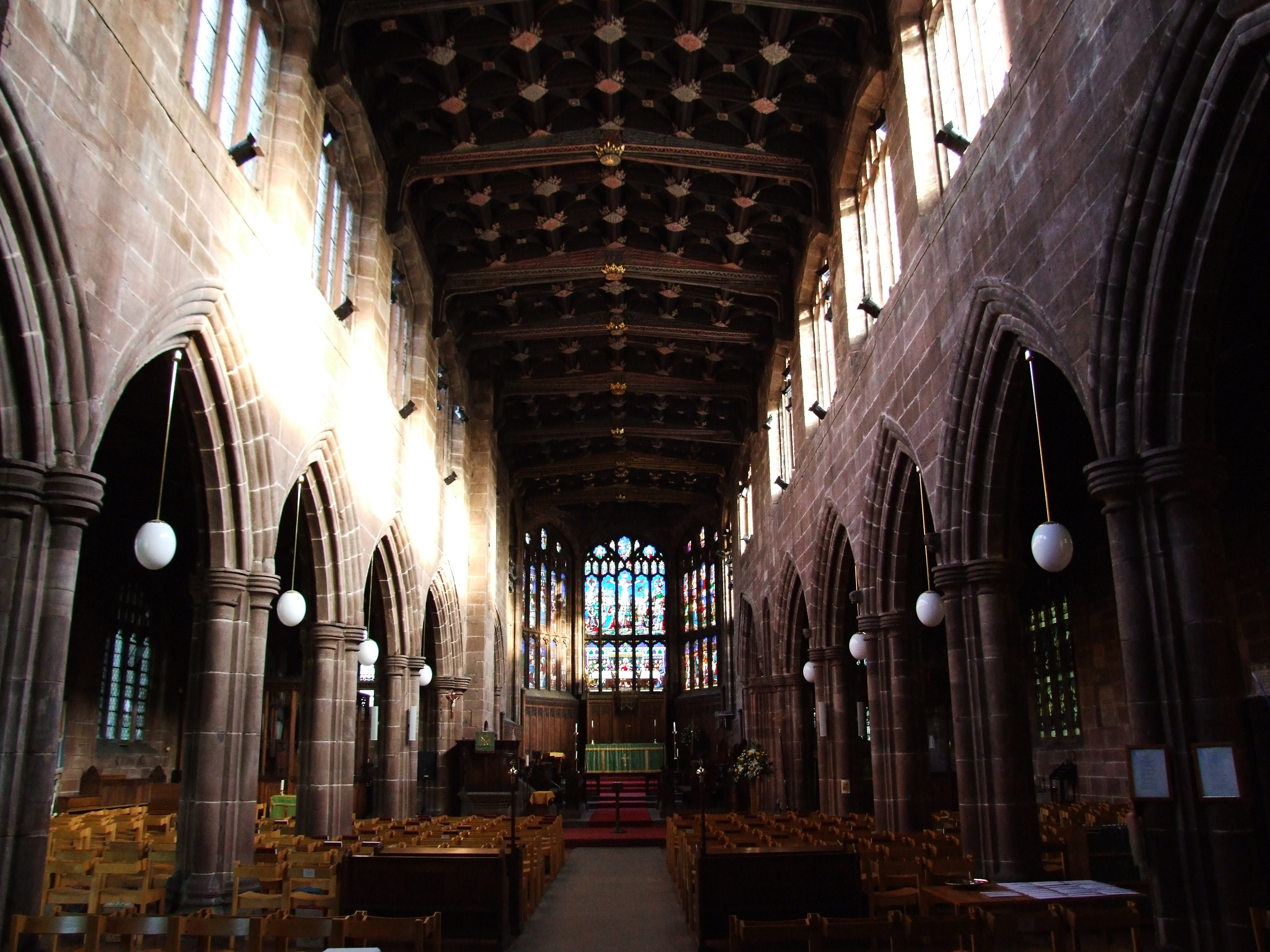 Interior of St Helen Witton church, Northwich, Cheshire, looking east along nave.